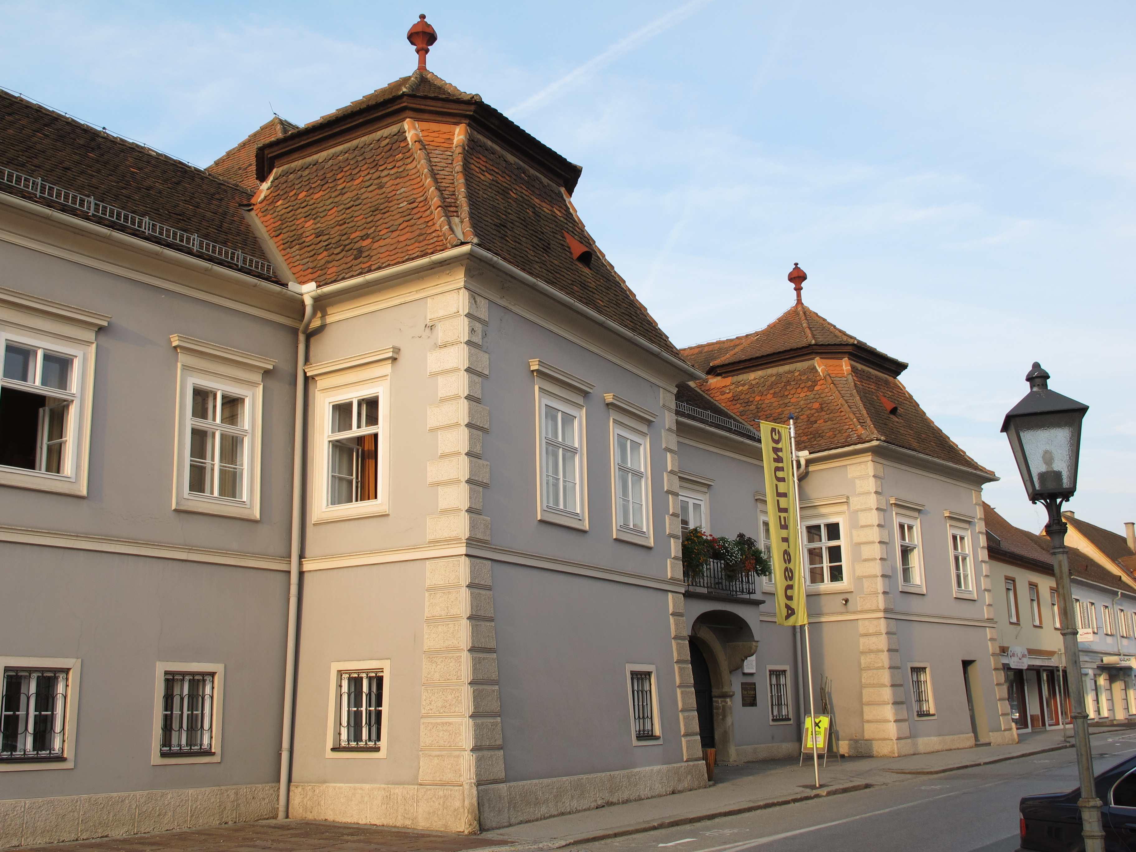 Musikschule Fürstenfeld